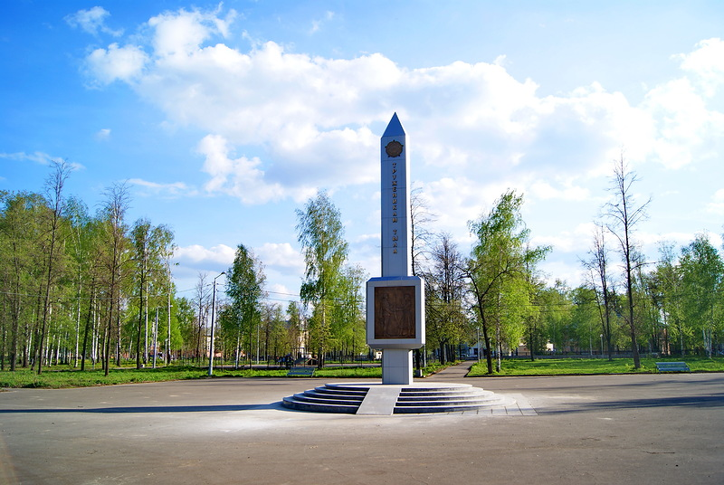 Monument to the Workers in the Rear in the Victory Park in Yoshkar-Ola